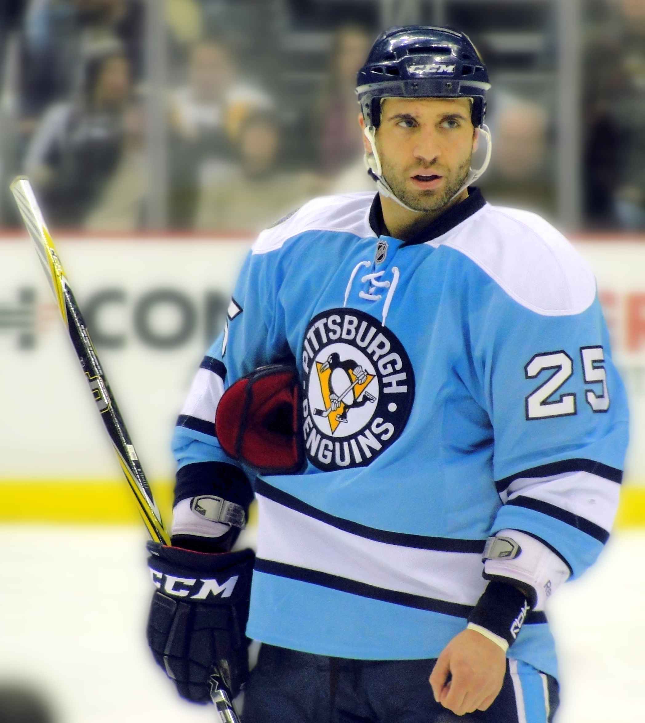 Max Talbot in his final season with the Pittsburgh Penguins, January 8, 2011 vs the Minnesota Wild at Consol Energy Center in Pittsburgh, PA.